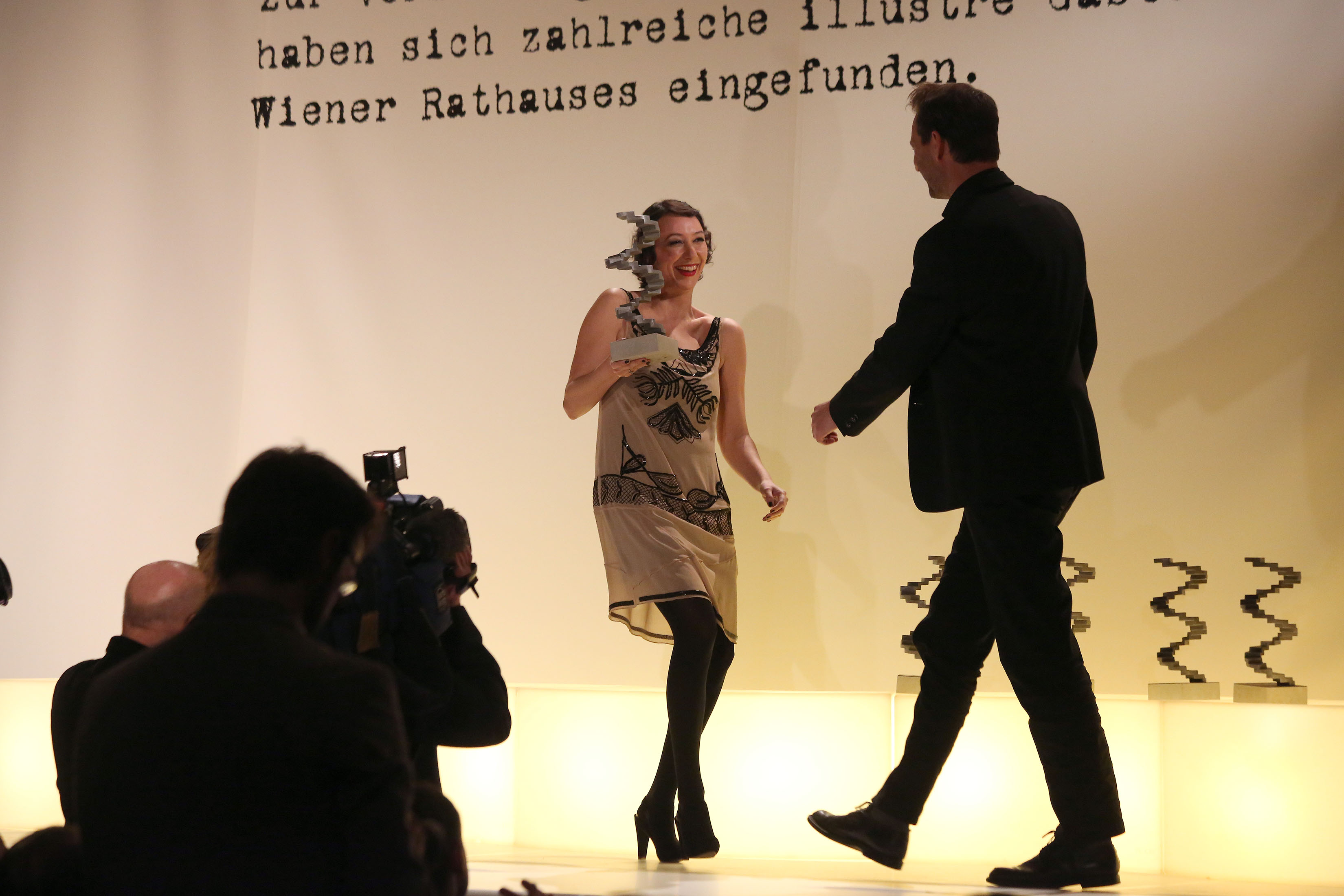 Martin Gschlacht receiving the award for Best Camera from Ursula Strauss at the Austrian Film Awards 2013 (Vienna).